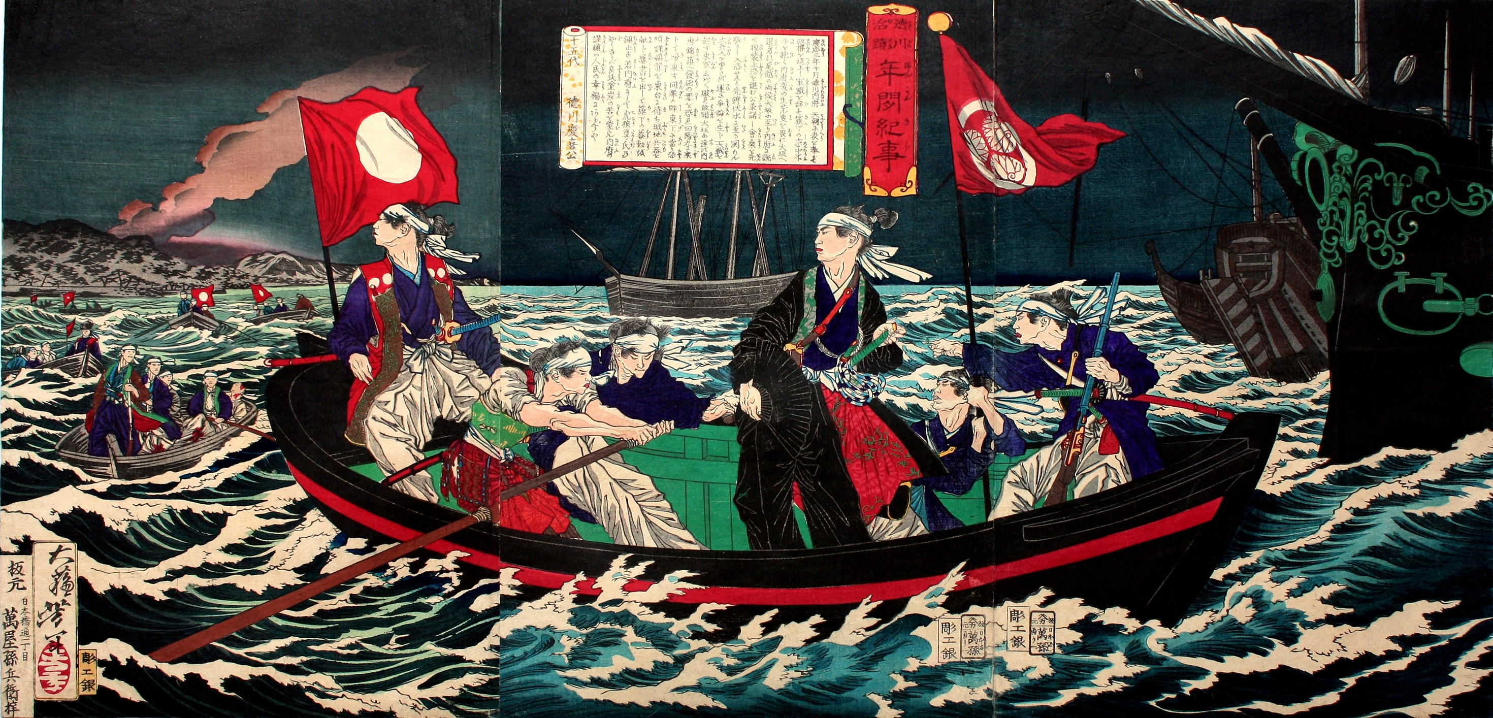 An ukiyo-e of Tokugawa Yoshinobu who escapes from after the Battle of Toba-Fushimi.